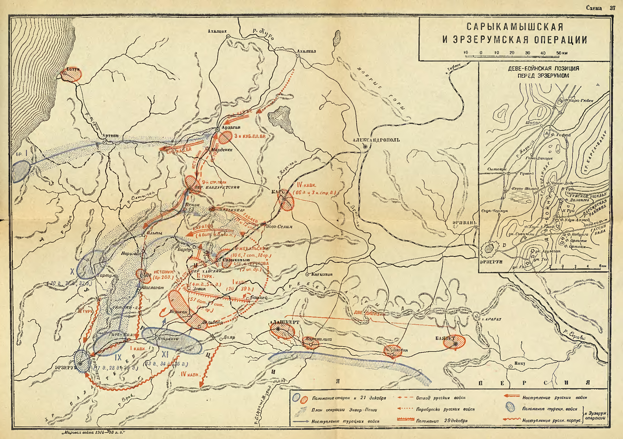 Battle of Sarıkamış, Erzerum Campaign, Caucasus campaign, WWI.